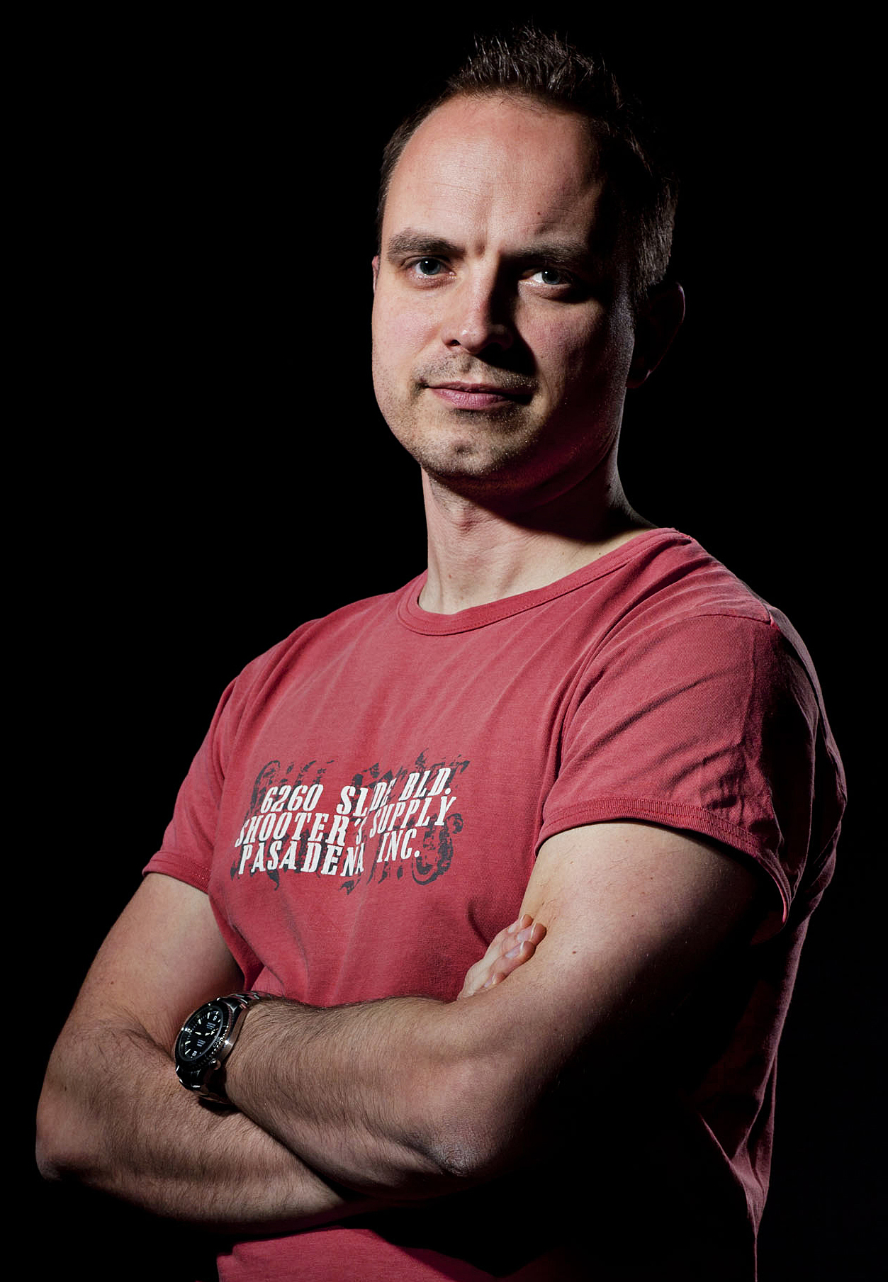 Picture of Ronnie Fridthjof